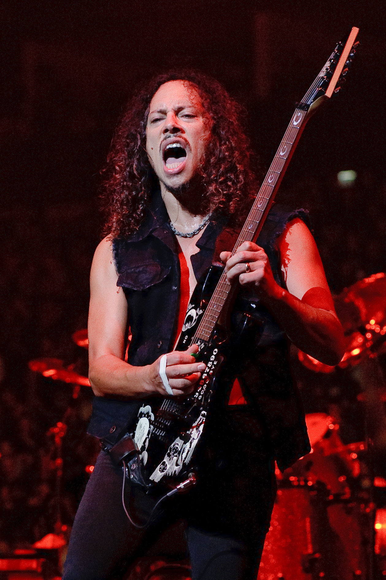 Kirk Hammett performing live at Metallica's Death Magnetic Launch Party in London's O2 Arena